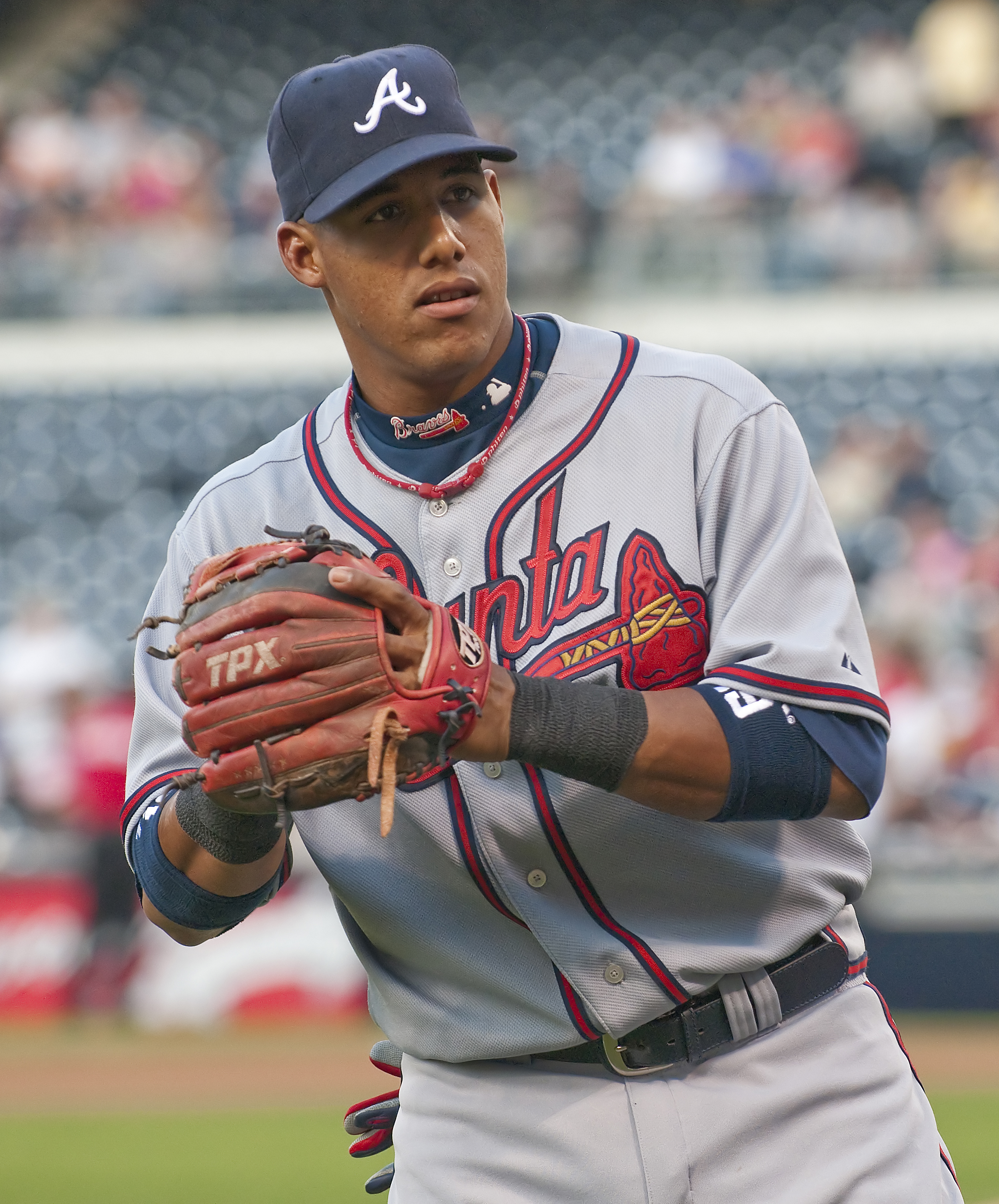 Yunel Escobar warming up at Petco Park in San Diego